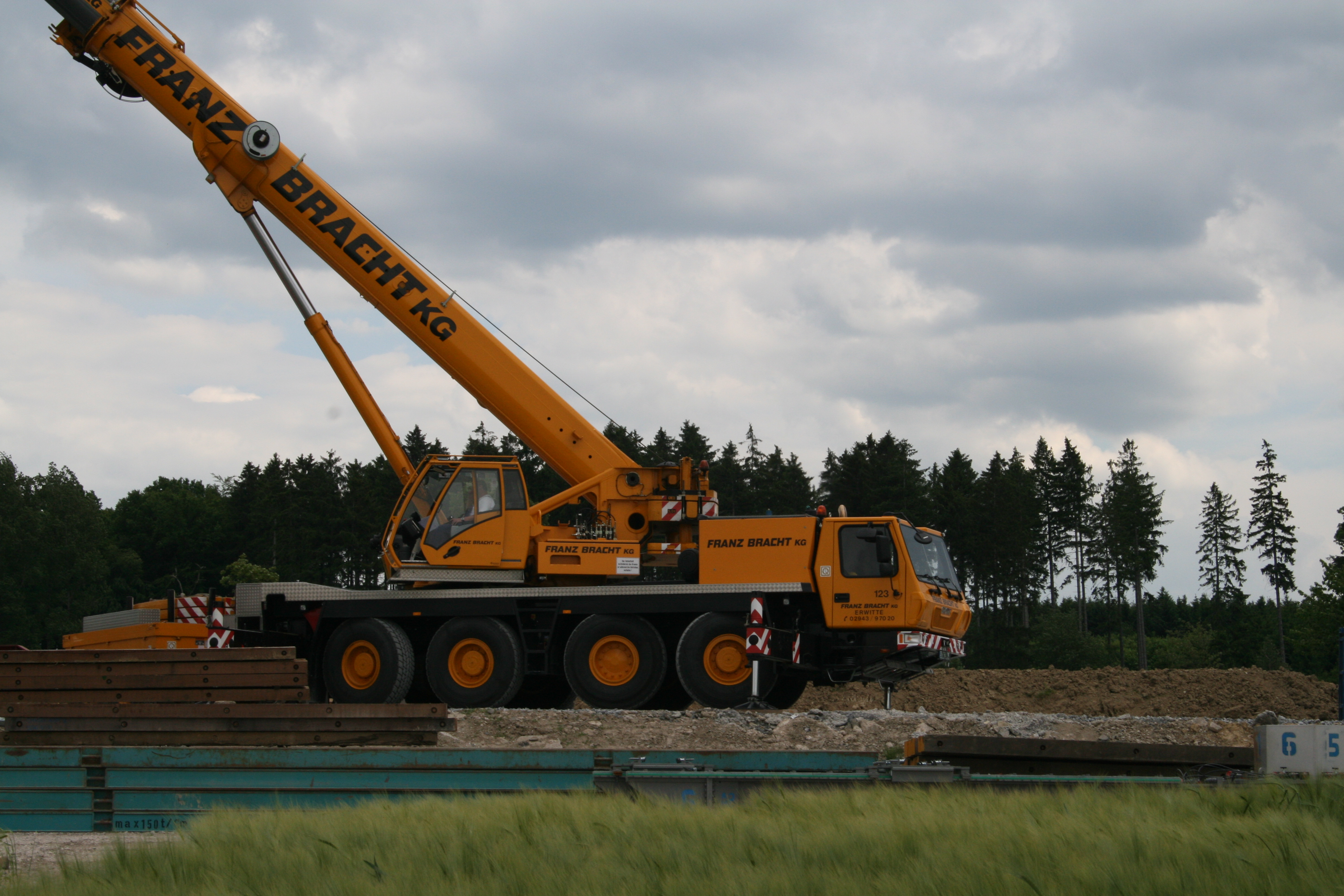 Franz Bracht crane